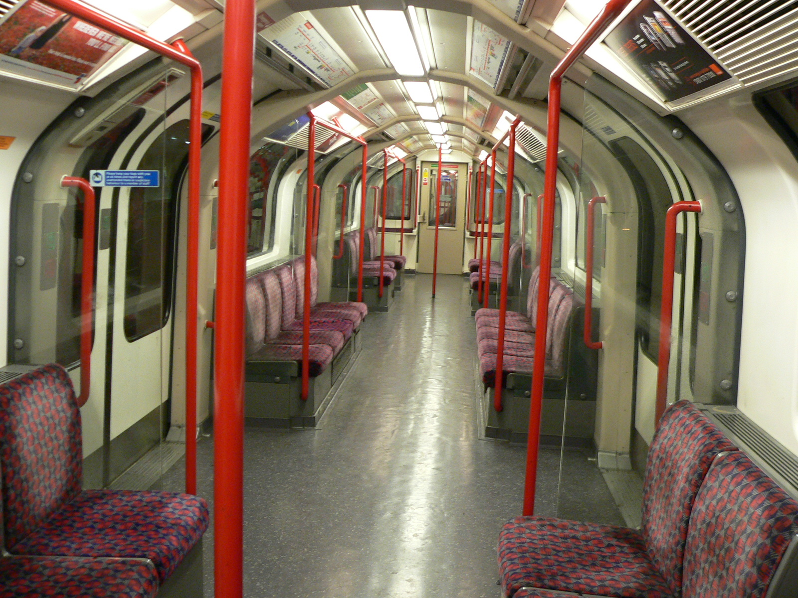 The interior of a London Underground 1992 tube stock Central Line train at Loughton station/